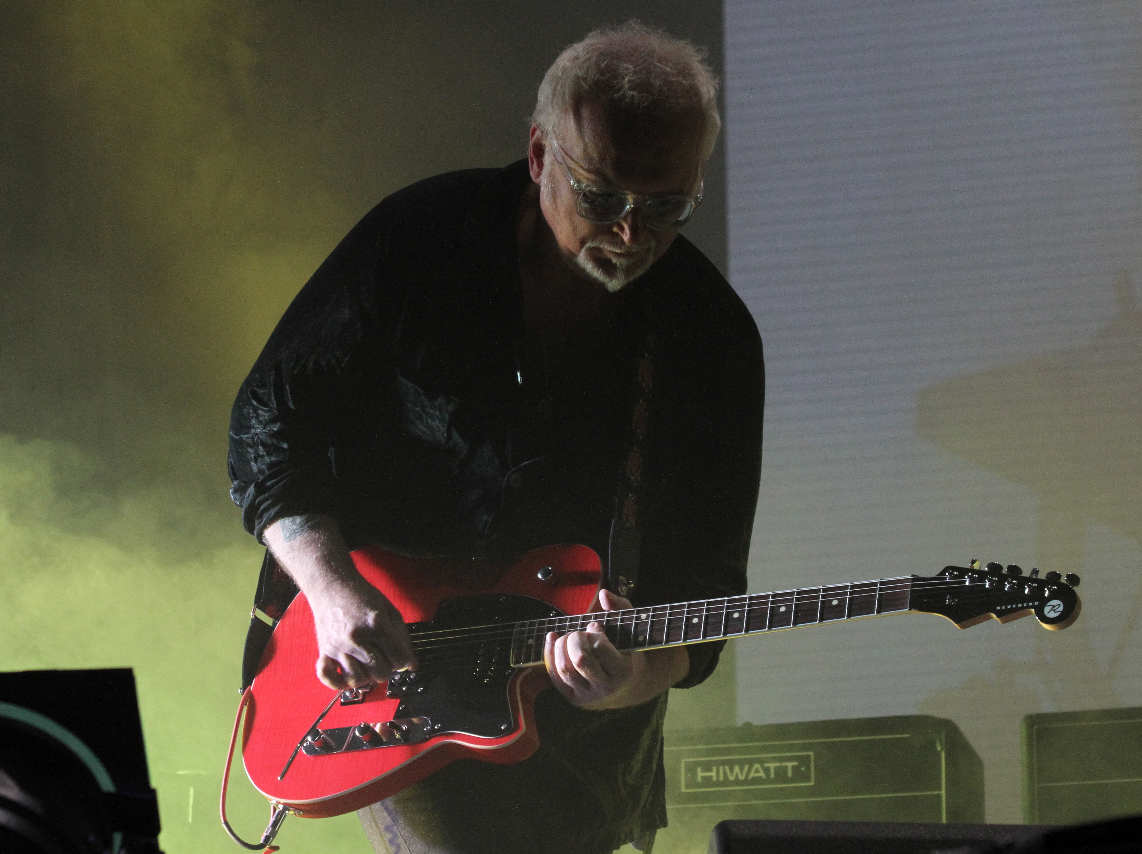 Posted via email from Globalite Magazine